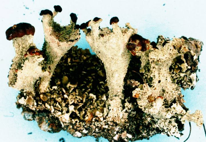 Cladonia pyxidata (L.) Hoffm., 1796 (photograph of a herbarium specimen) Growing on a stone wall of a cemetery across the street from the Church of the Brethren, Westminster, Carroll County, Maryland, USA; collected and identified by Elmer G. Worthley and Allen C. Skorepa (No. LH-78, 26 Aug 1984); specimen is now in the Lichen Herbarium of the New York Botanical Garden.